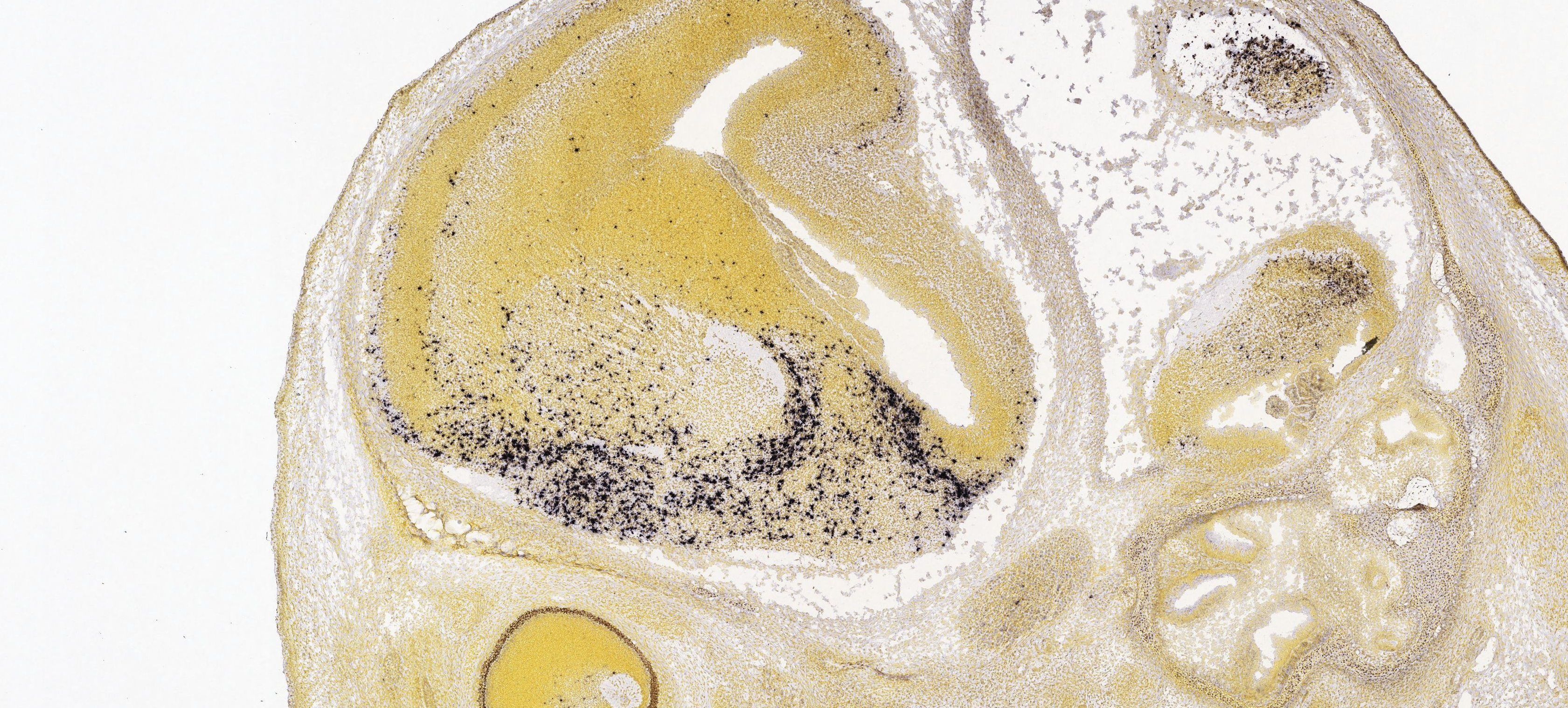 ISH image of Sst gene expression in the interneurons of E15.5 day mice in the telencephalon